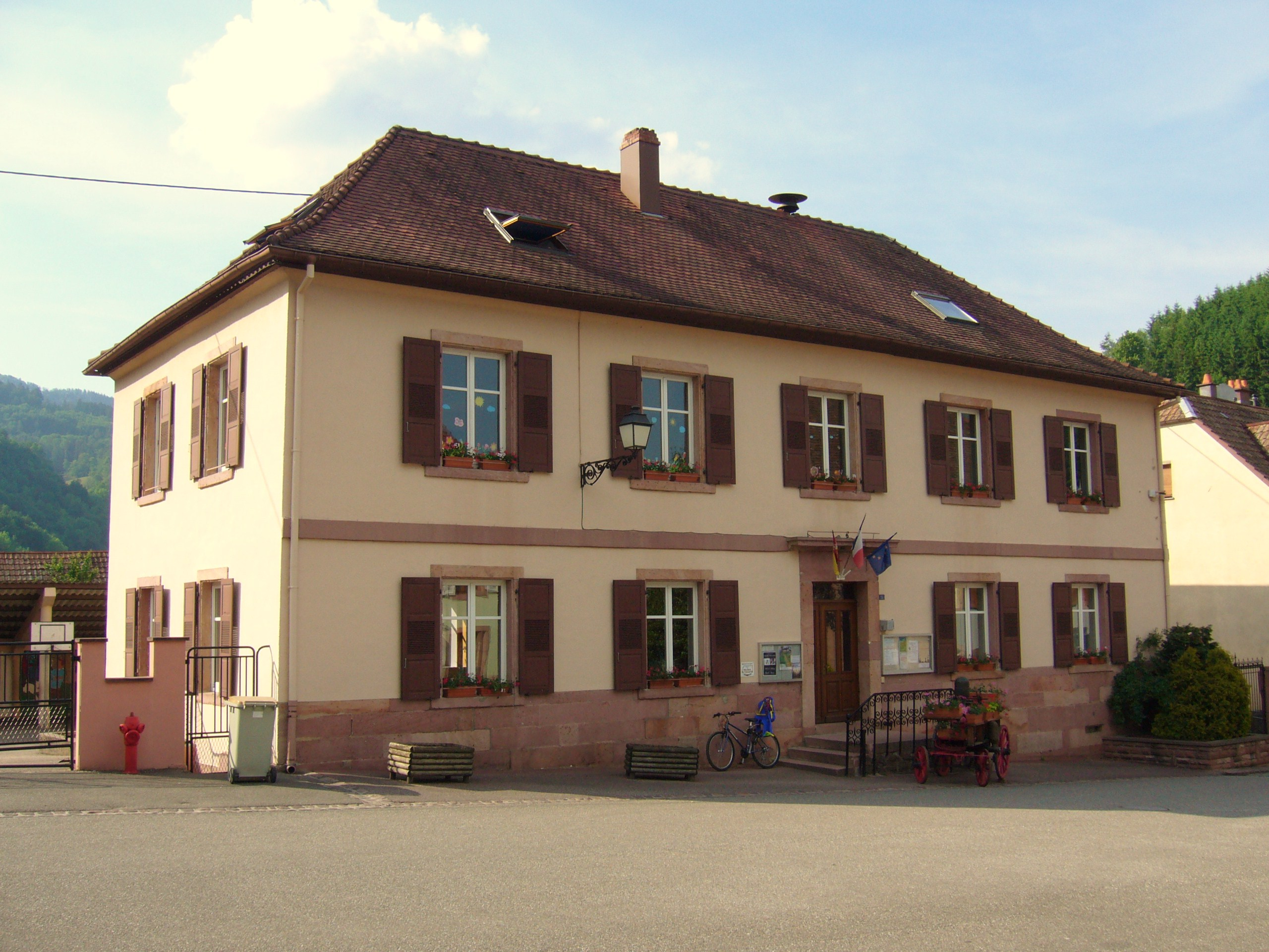 Rombach-le-Franc 026.JPG